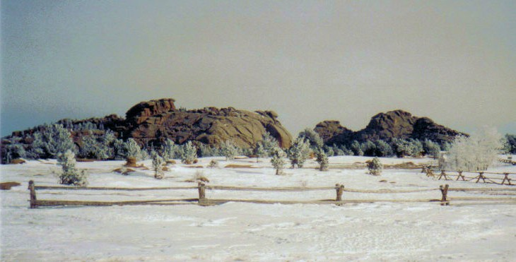 I took this image in 2001--MONGO 10:07, 19 February 2006 (UTC) Vedauwoo rocks are located in Medicine Bow - Routt National Forest in Wyoming, U.S. They are easily accessible from I80 and are about 10 miles east of Laramie, Wyoming.